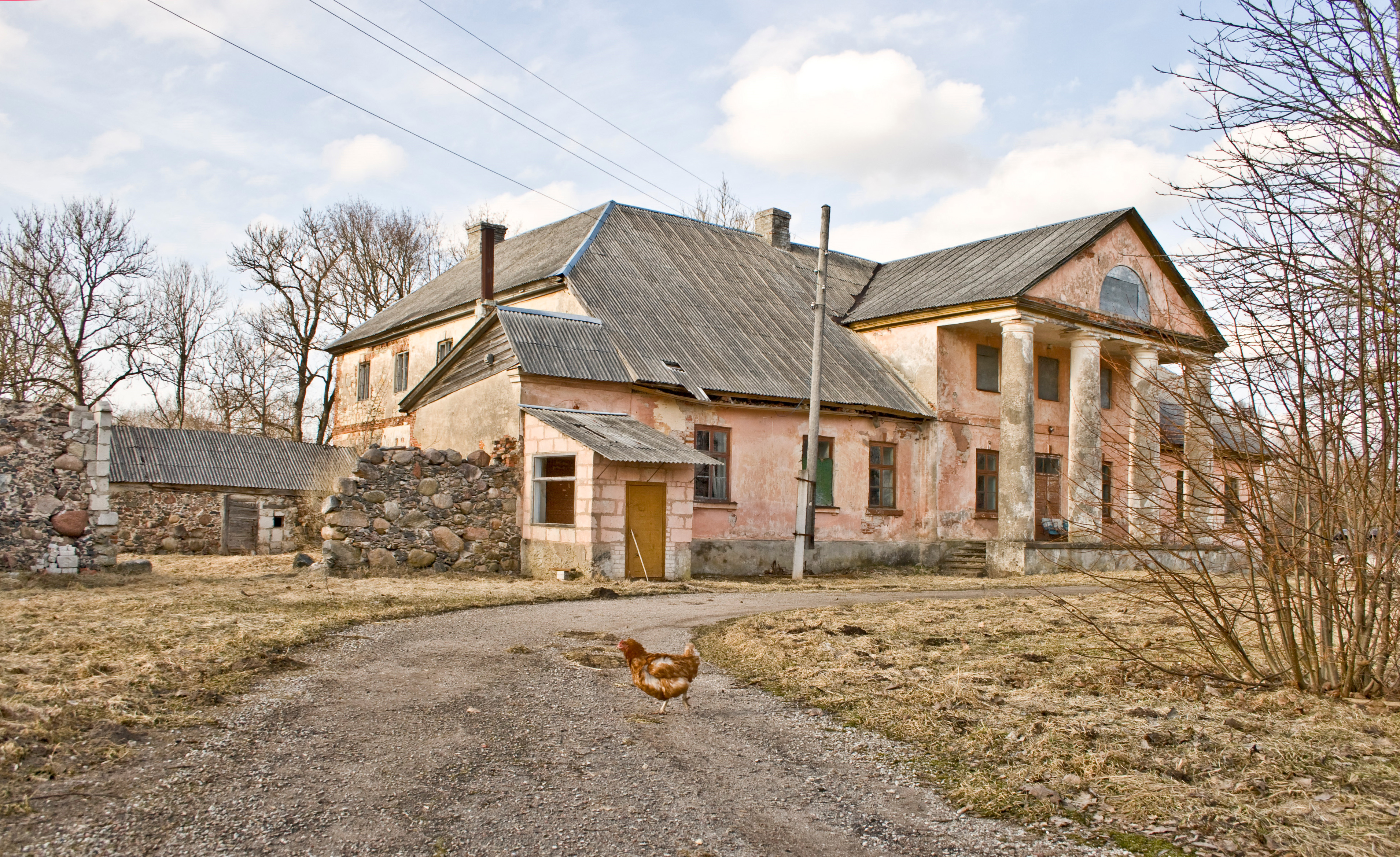 Lēnas Manor, LatviaLatviešu: Lēnu muižas kungu māja